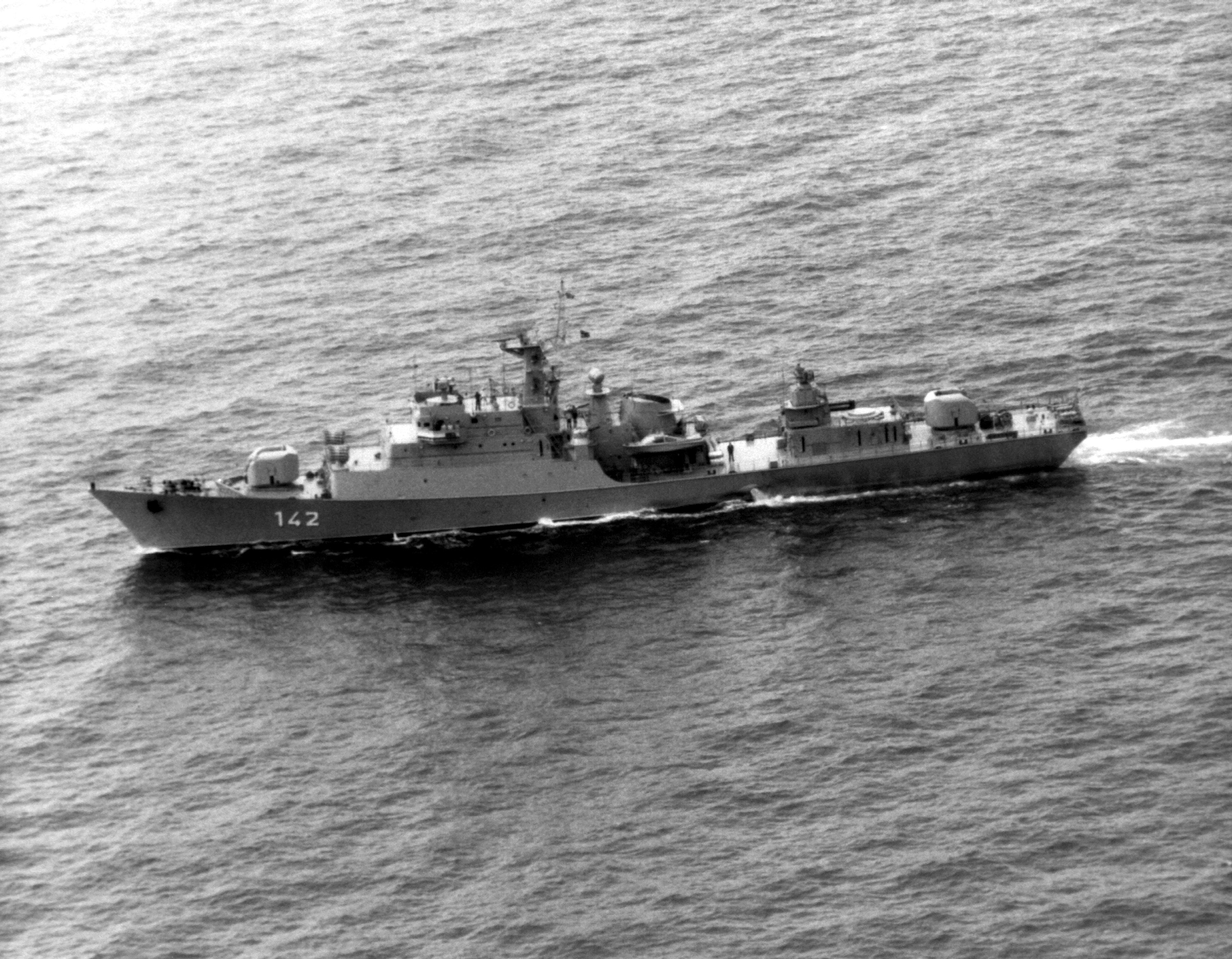 An aerial port beam view of Soviet Koni Class frigate underway.